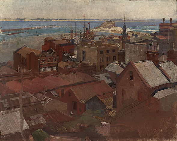 Newcastle, oil on canvas, 40.7 x 51.1 cm, by George Washington Lambert